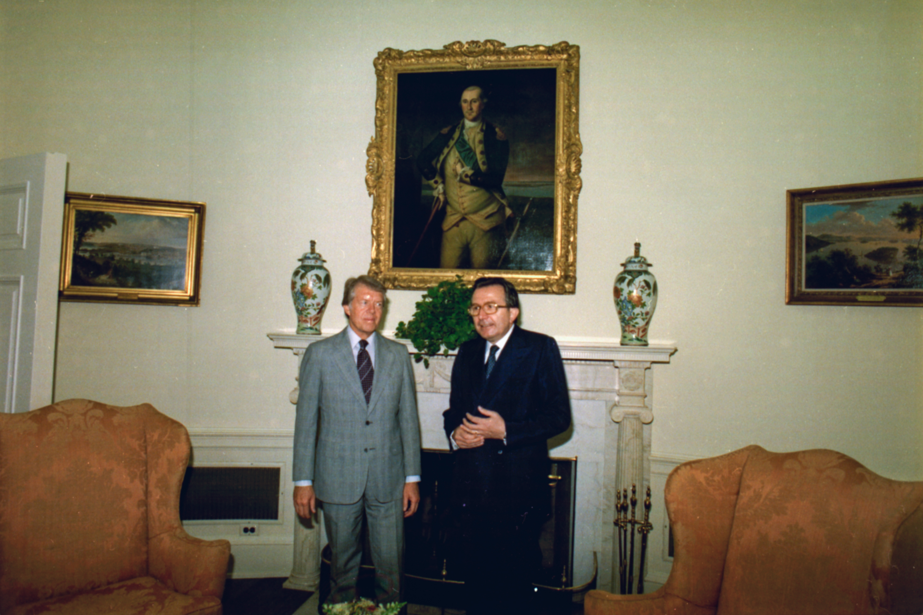 Jimmy Carter and Prime Minister of Italy Giulio Andreotti